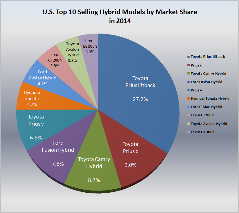 Graph showing market share of US top 10 selling hybrids for sales in 2014. Data series taken , available here. Graphic edited with Excel and converted to PNG with Photoshop Elements.